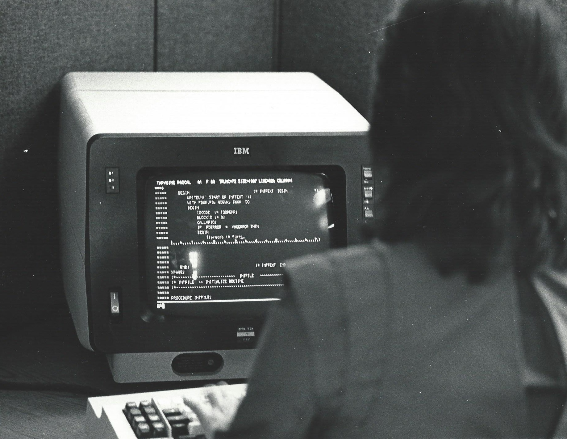 An Informatics General computer programmer working in a cubicle at the company's New York City office. She is looking at Pascal language code for the TAPS product on an IBM 3270 terminal.